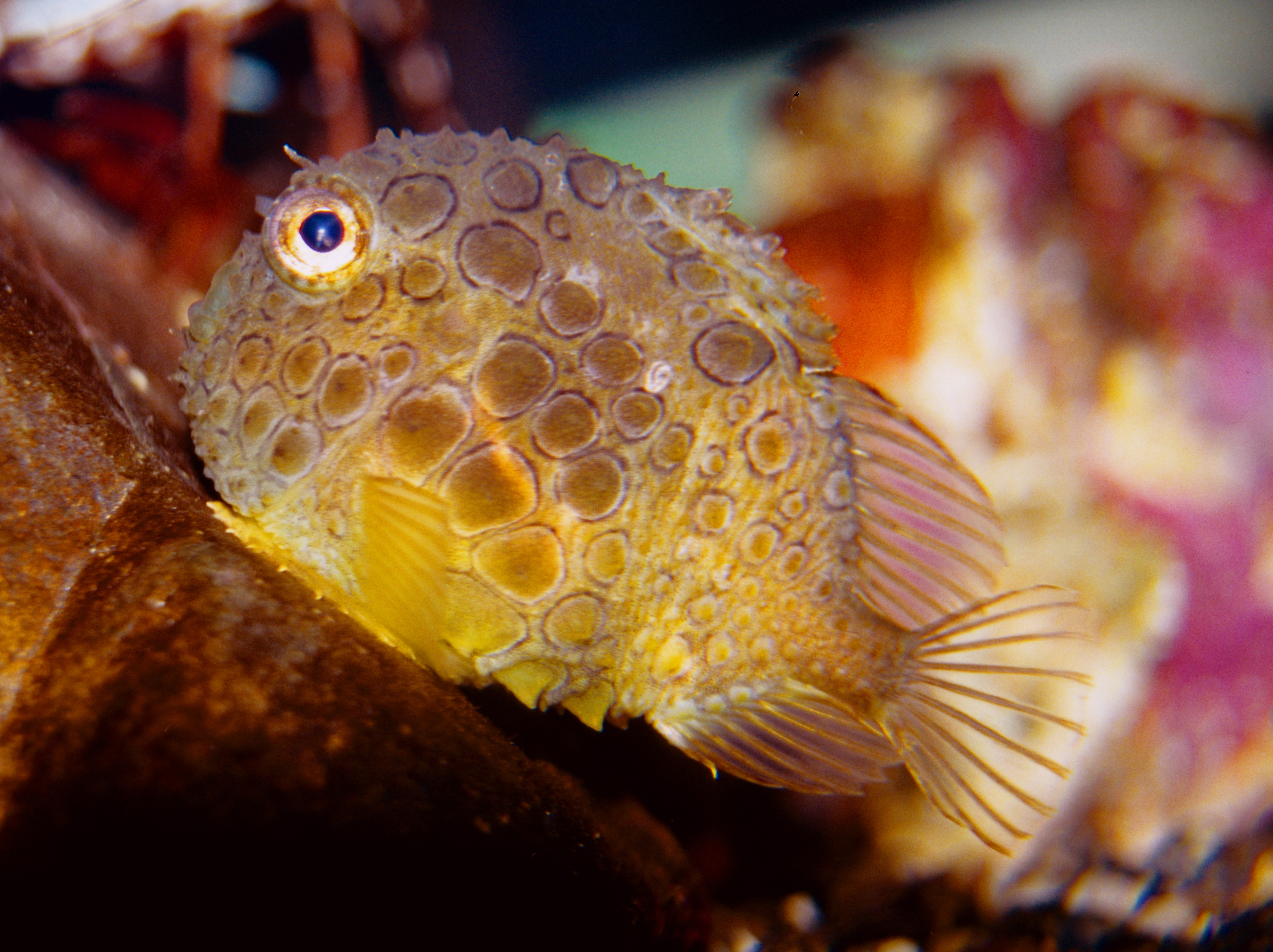 Spiny lumpsucker (Eumicrotremus orbis) Image ID: fish4006, NOAA's Fisheries Collection Location: Alaska, Auke Bay